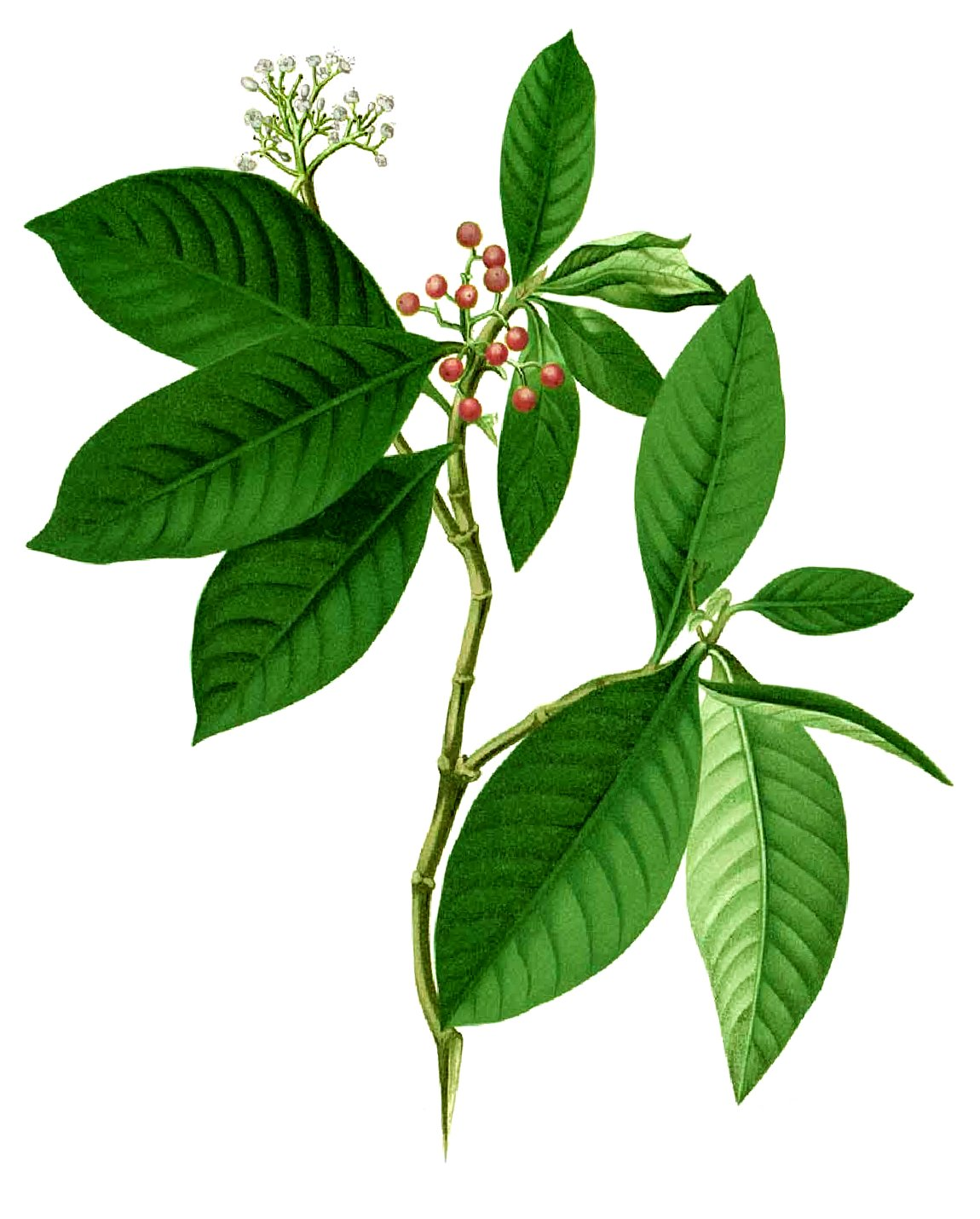 Psychotria luconiensis is the name suggested by Philippine Medicinal Plants shown in this plate from the book and GRIN places it in the Philippines.